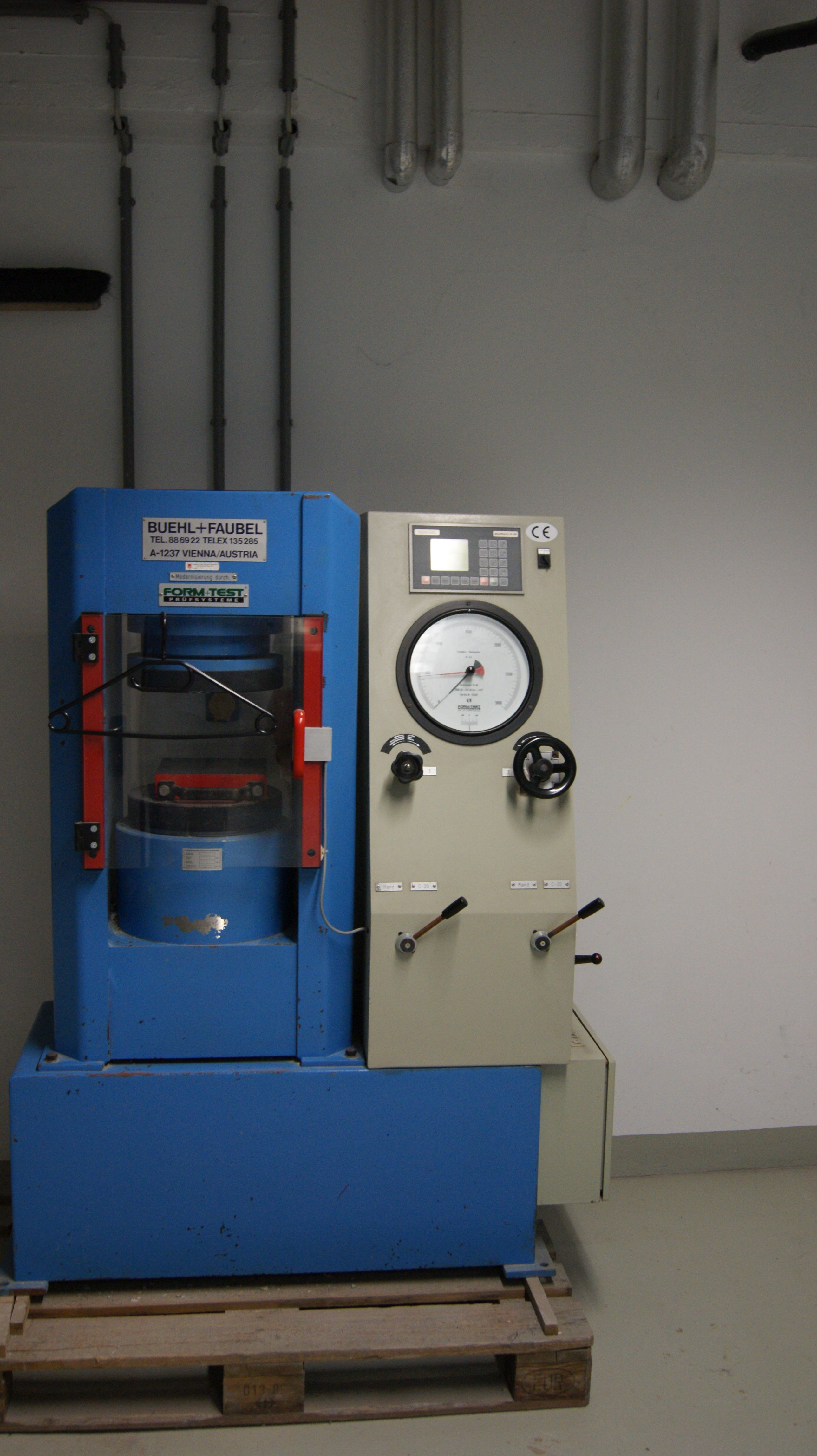 Vocational school Dornbirn I in Dornbirn, Vorarlberg, Austria. Concrete pressure tester Form+Test DIGIMAXX O-20, year of construction: 1998.